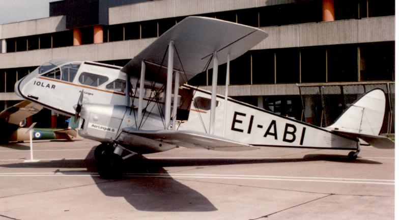 DH.84 Dragon of Aer Lingus at Manchester